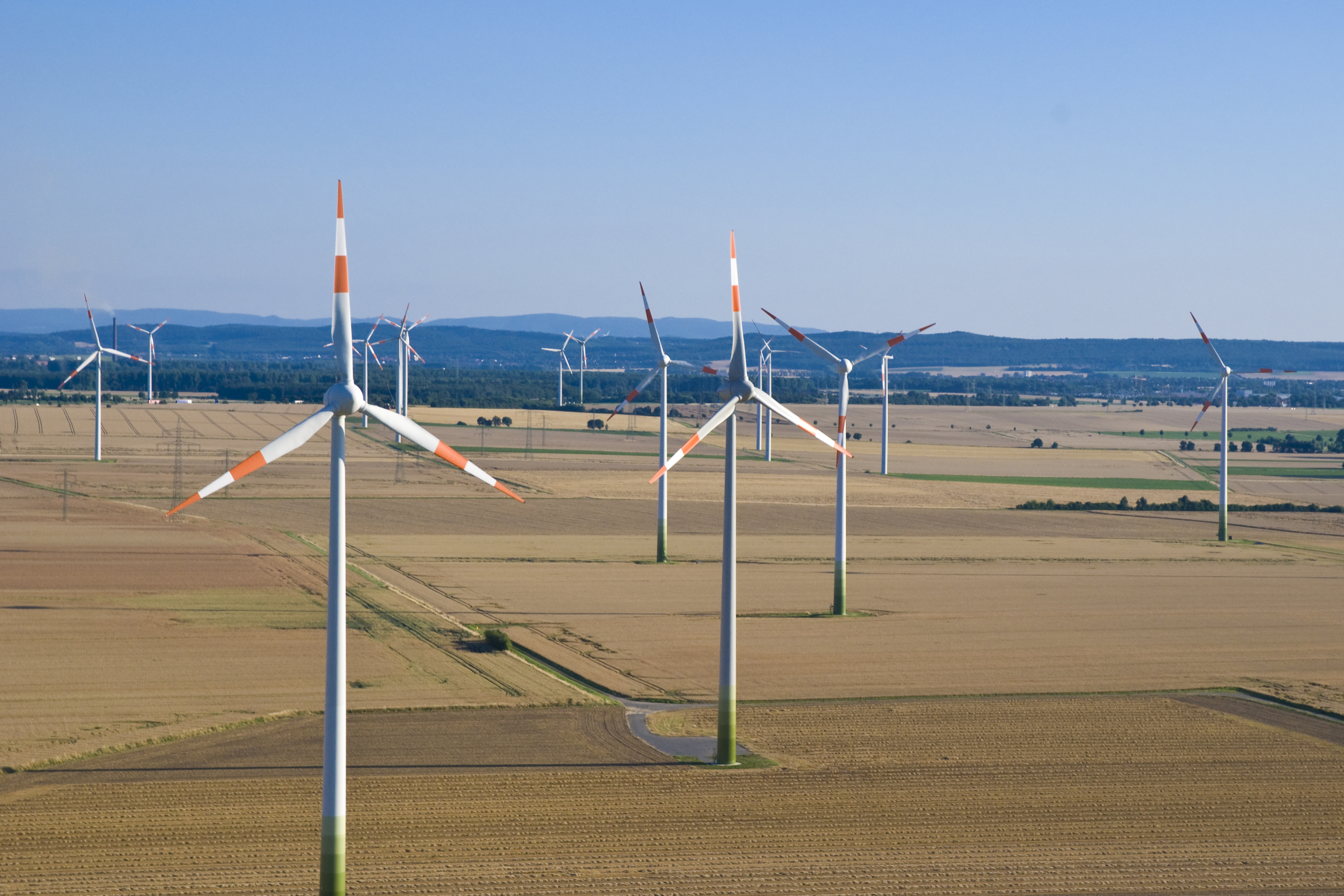 A Wind farm. The wind turbines are manufactured by Enercon. This photo was taken up from air. During a flight from Braunschweig to Hildesheim (in Germany, Lower Saxony).